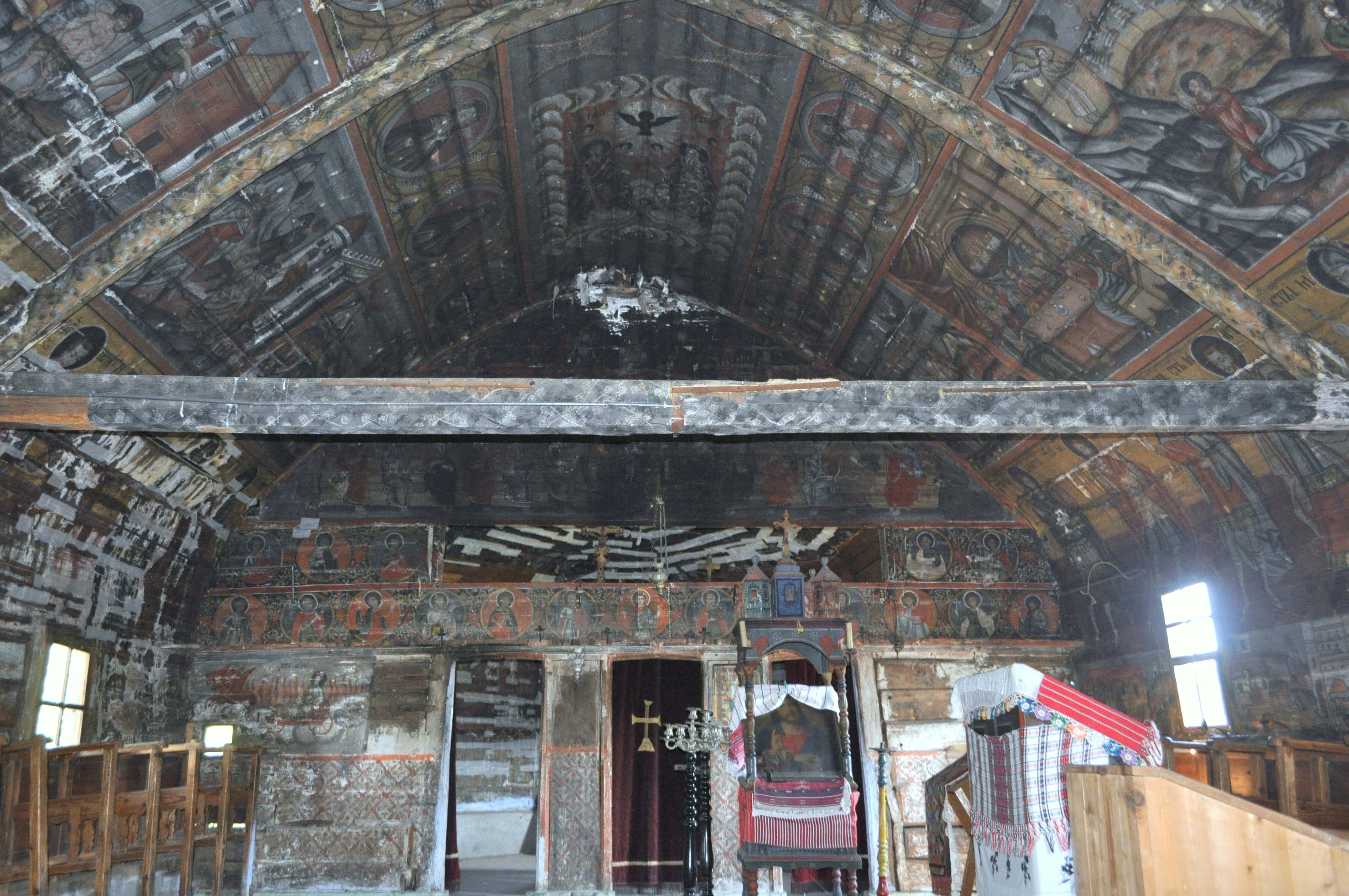 Wooden church in Apoldu de Jos, Sibiu countyRomână: Biserica de lemn din Apoldu de Jos, județul Sibiu